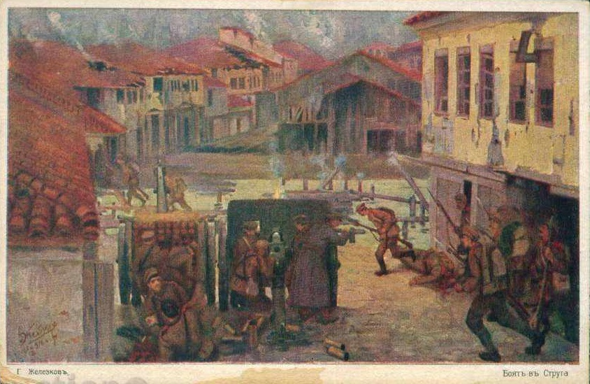 Battle of Struga by Gospodin Zhelyazkov